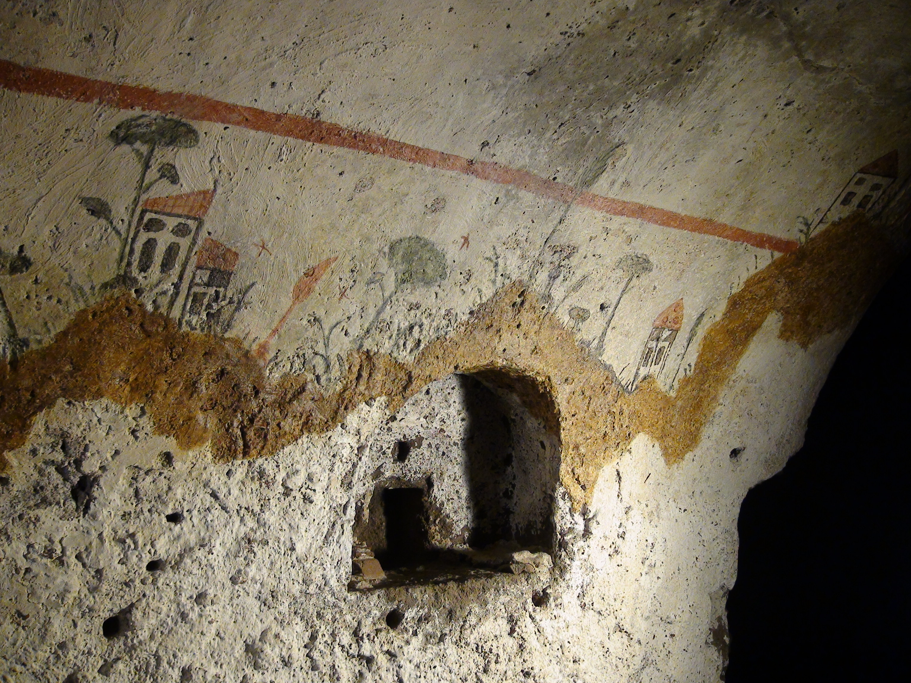 Wall paintings at the reservoir Carcerati on the Island of Ventotene, Italy